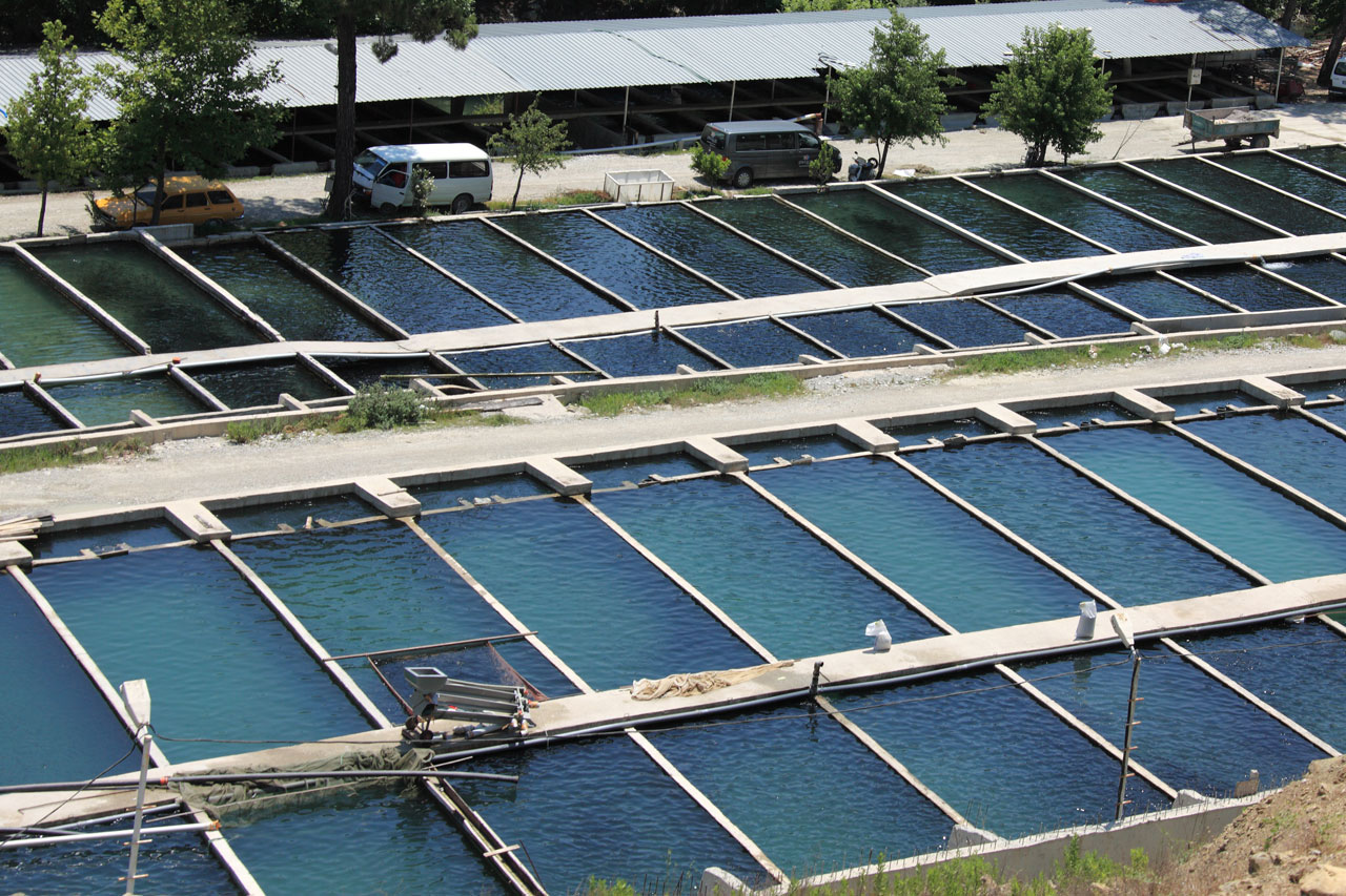 Trout Fish Farm in Turkey